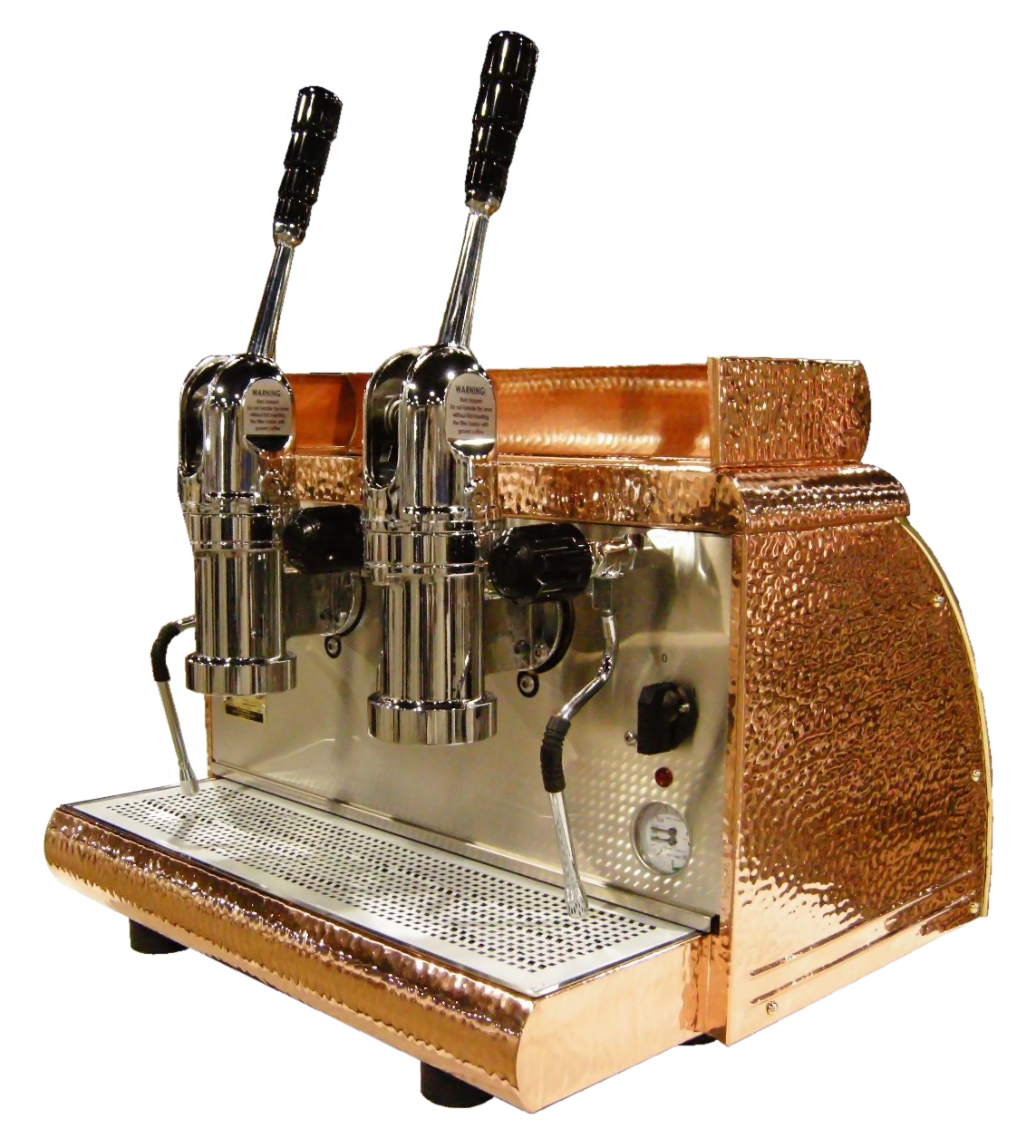 The Victoria Arduino espresso machine " Athena Leva model".